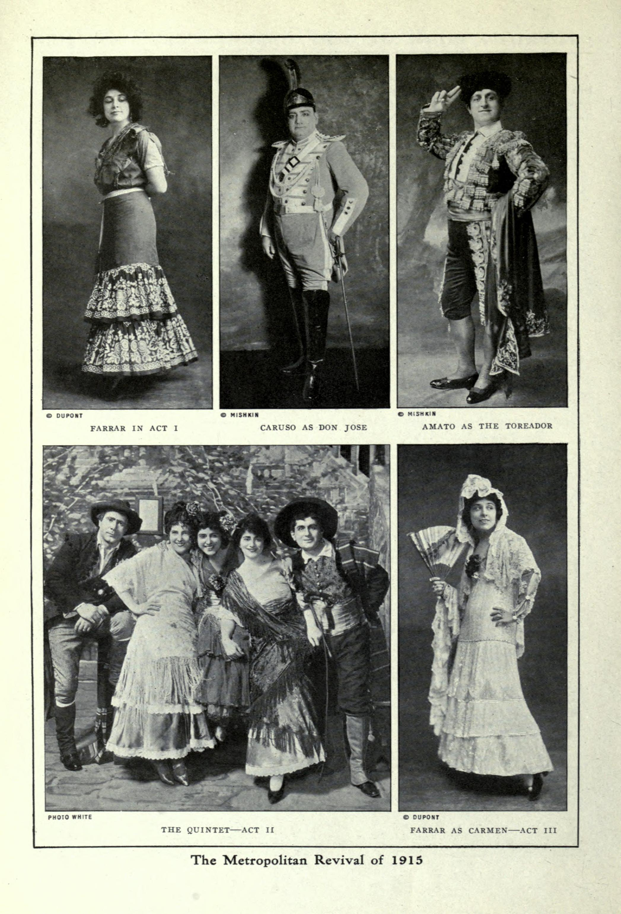 Publicity photographs relating to the revival of Bizet's opera Carmen at the Metropolitan Opera, New York, in January 1915, with Enrico Caruso and Geraldine Farrar